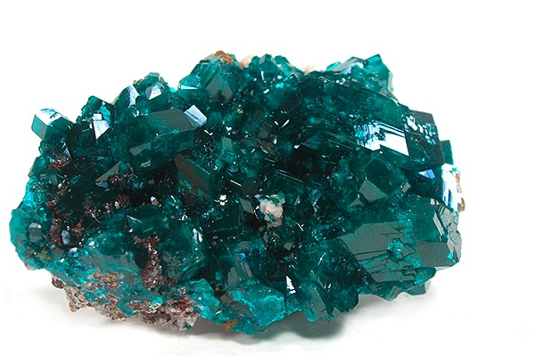 Dioptase Locality: Tsumeb, Otjikoto (Oshikoto) Region, Namibia (Locality at ) With the great Tsumeb mine now history, specimens of this quality are hard to come by. These deep, emerald green dioptase crystals, to a whopping 2 cm in length on the largest, completely cover the whole specimen with glistening color. In addition, they are fairly gemmy for the species and have vibrant luster. Just a great piece! NO DAMAGE to the display face. Lastly, the piece photos better horizontally but really can be stood vertically for maximal display, with the larger crystal then centered on the top half of the specimen.5.2 x 3.4 x 1.4 cm